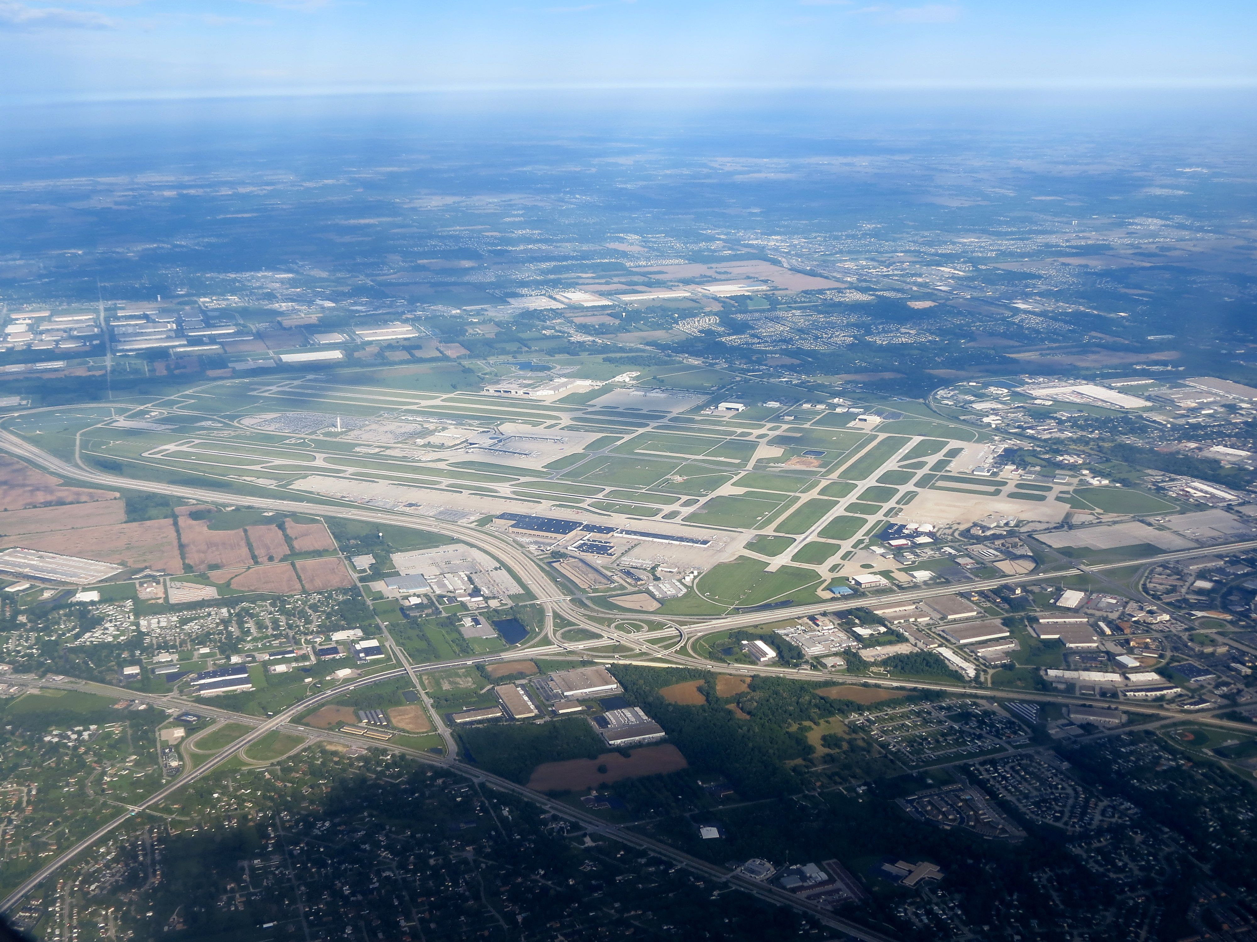 Indianapolis International Airport